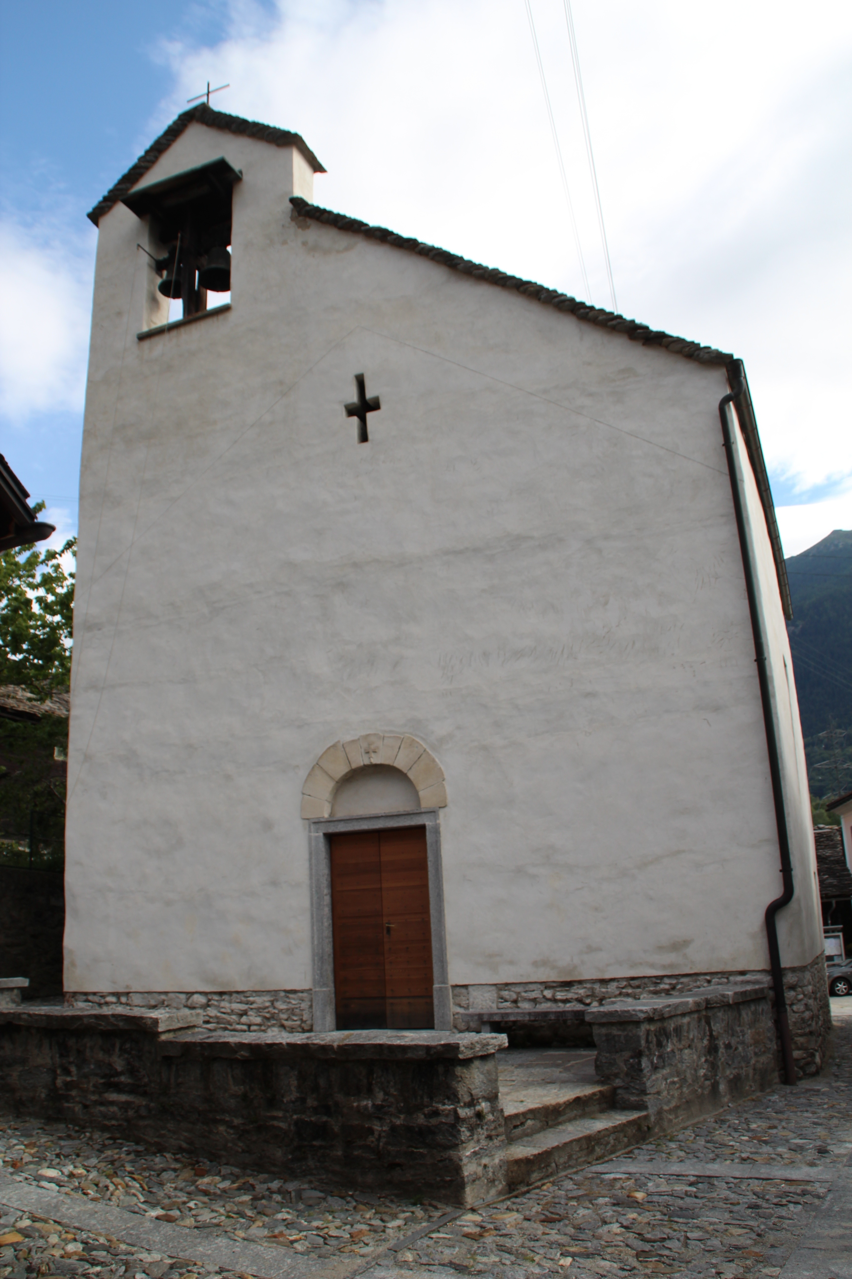 Chironico: Kirche S. Ambrogio